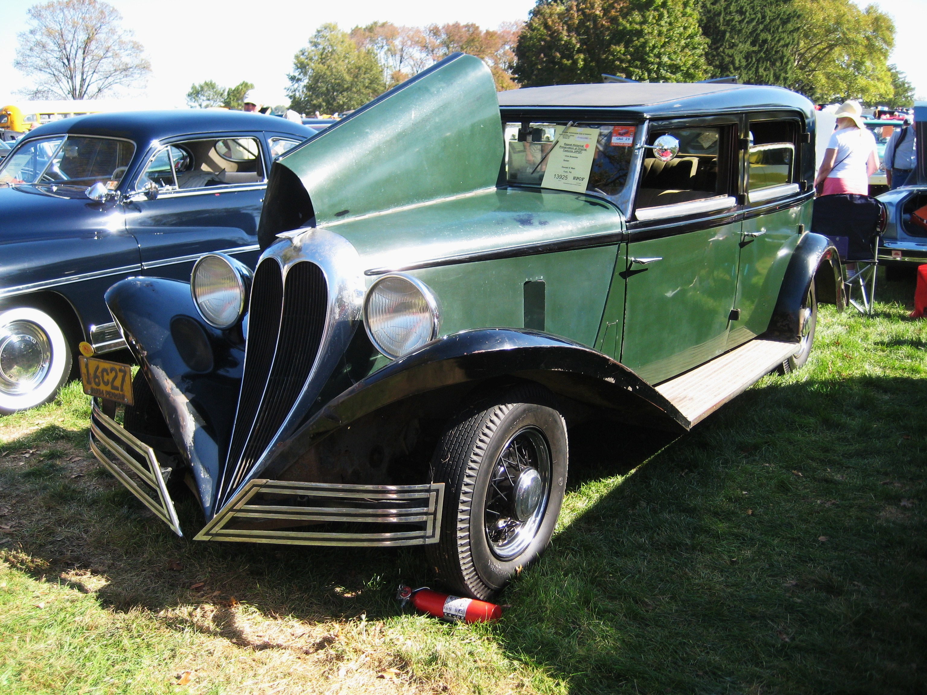 1934 Brewster sedan on a Ford V8 chassis